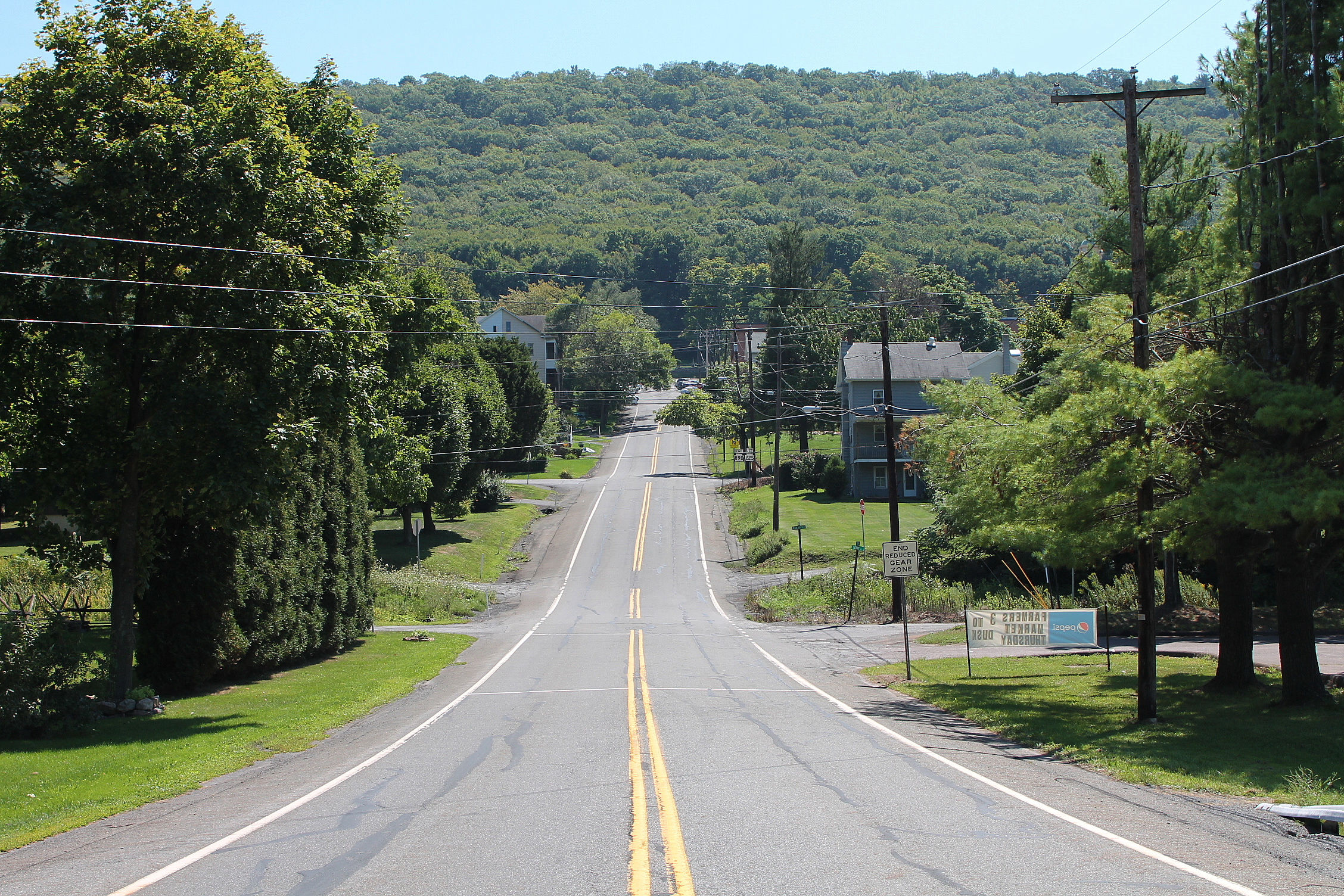 Pennsylvania Route 890 near its terminus in Trevorton, looking south